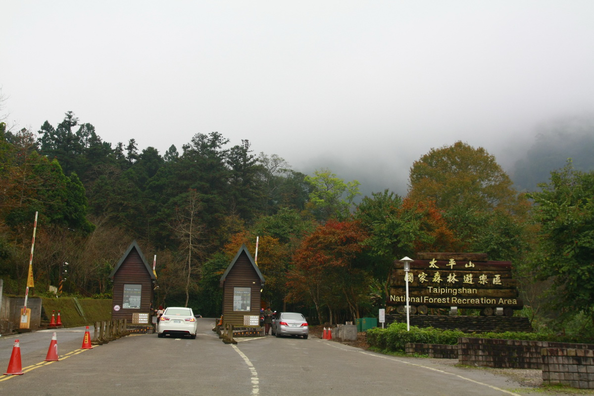 Taipingshan National Forest Recreational Area中文（中国大陆）: 太平山国家森林游乐区